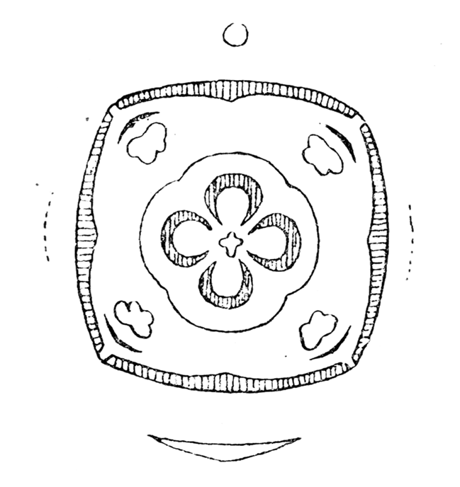 Diagram of a flower of Rhamnus cathartica (Rhamnaceae)